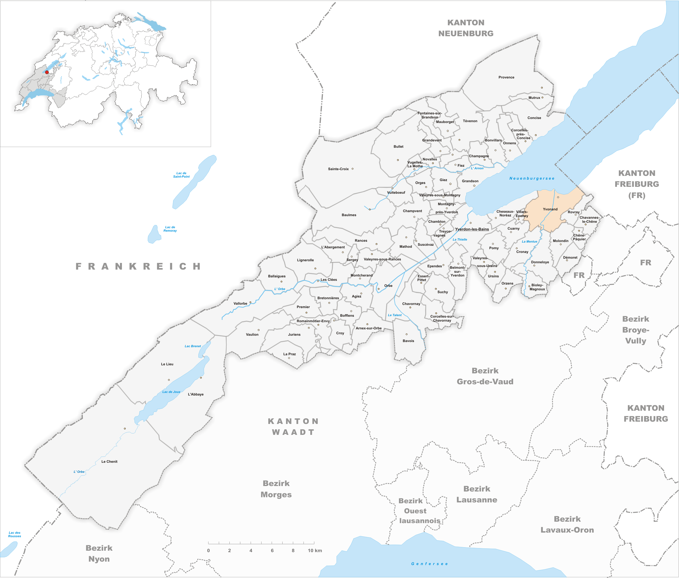 Municipality Yvonand